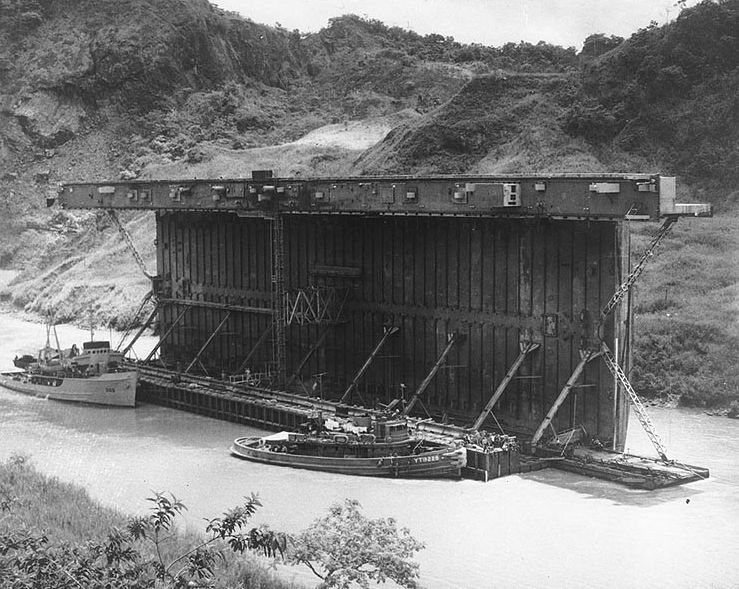 AFDM-3 center section later (YFD-6) floated through the Panama Canal on it side. Towed by Alarka (YTB-229) (center) and USS ATA-209 (left) through Culebra Cut in May-June 1945. Navy SeaBees turned YFD-6s center section on its side and installed a thousand pontoons atop the wing wall to allow the drydock to float on its side during the canal transit. The photograph released on 25 June 1945.